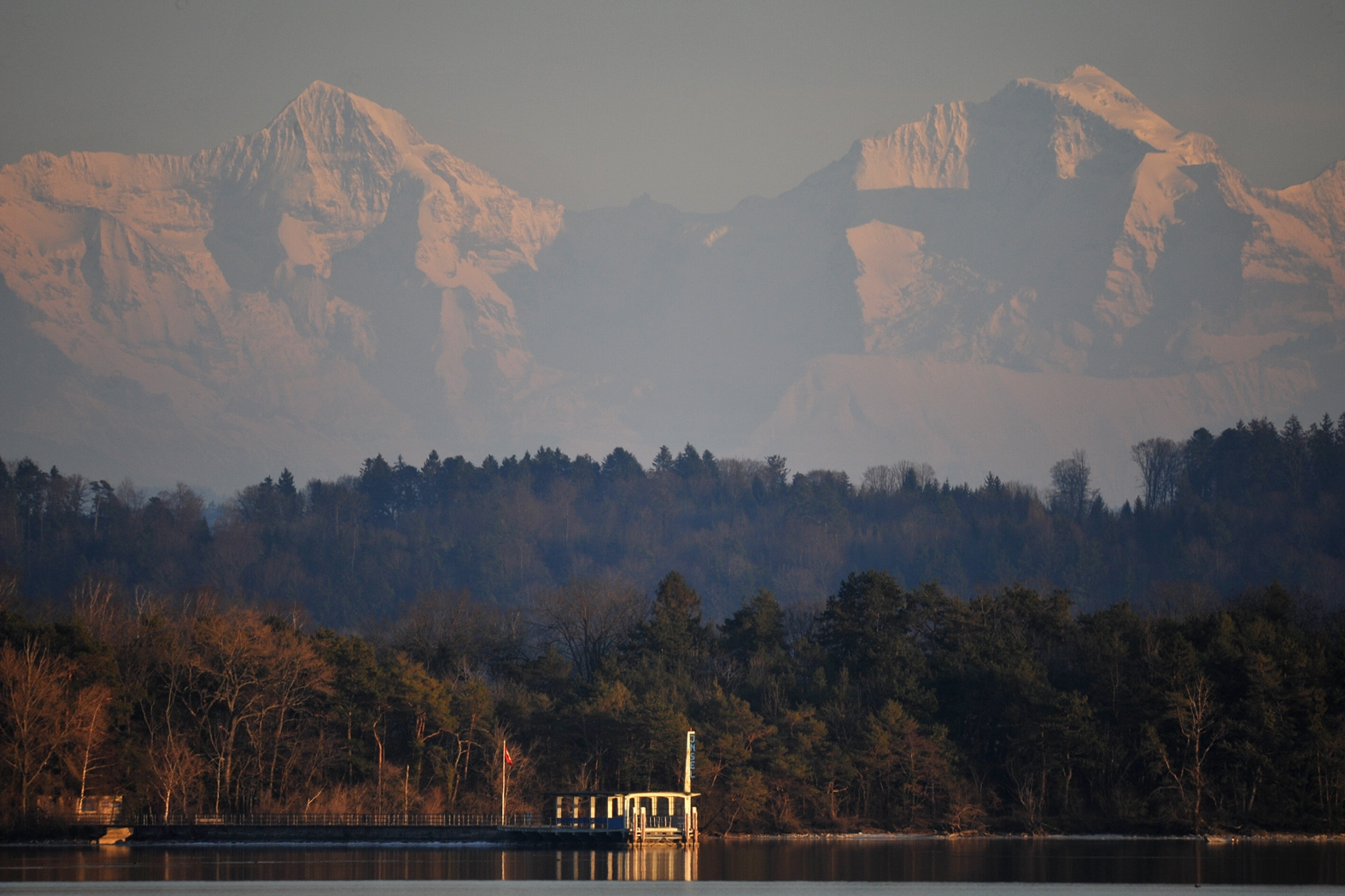 The landmarked pier St. Petersinsel Nord «JNSEL» at the Lake Biel; Berne, Switzerland. In the background left the Mönch, right the Jungfrau with the cross-shaped shadow, typical for the winter season.